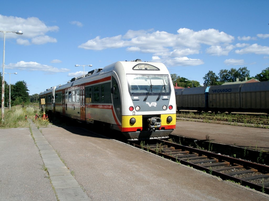 A VR Class Dm12 diesel multiple unit at the Hanko railway station in Hanko, Finland. The Dm12 trains run regularly between Hanko and Karis.